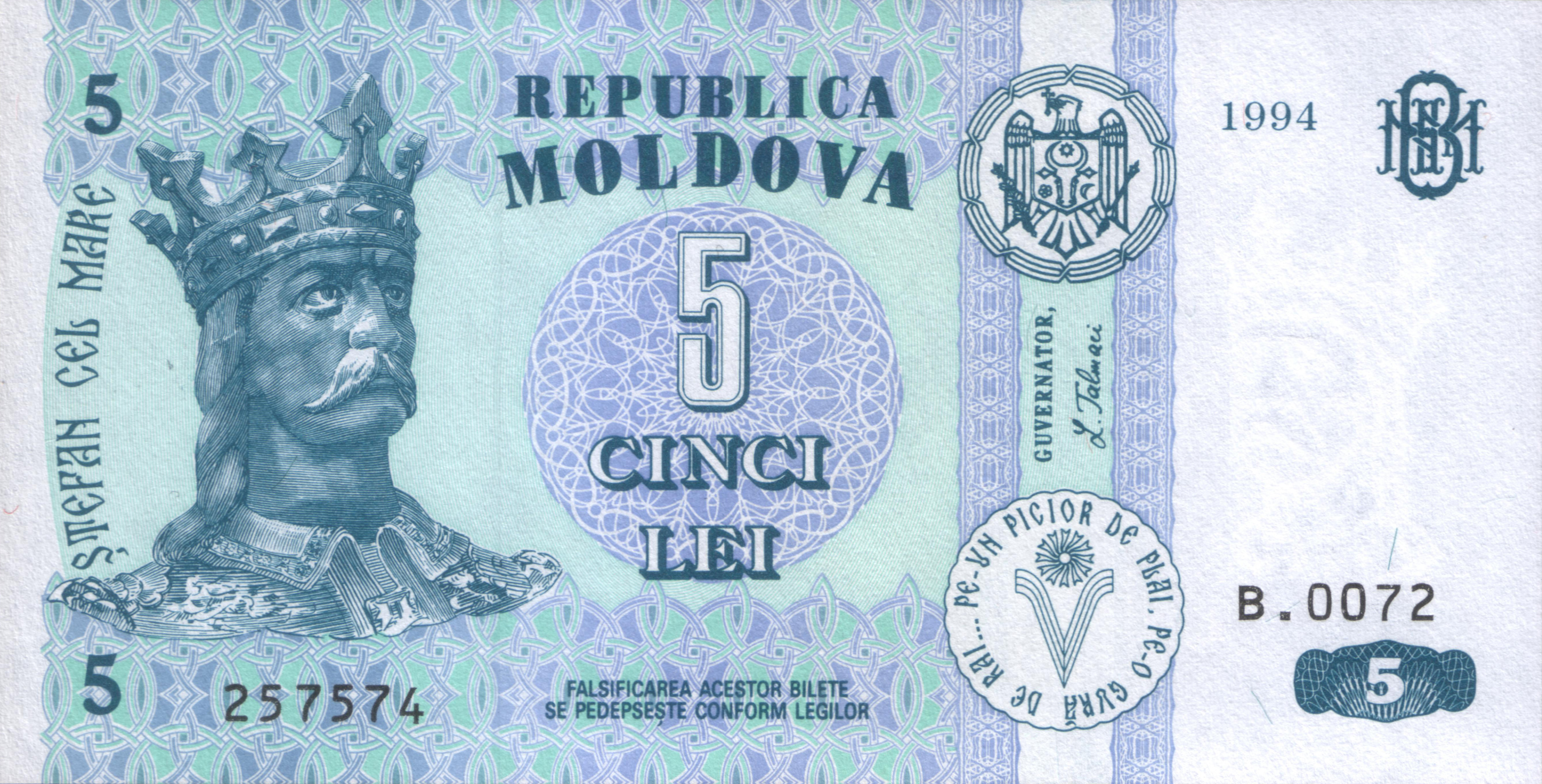 5 lei (1994)